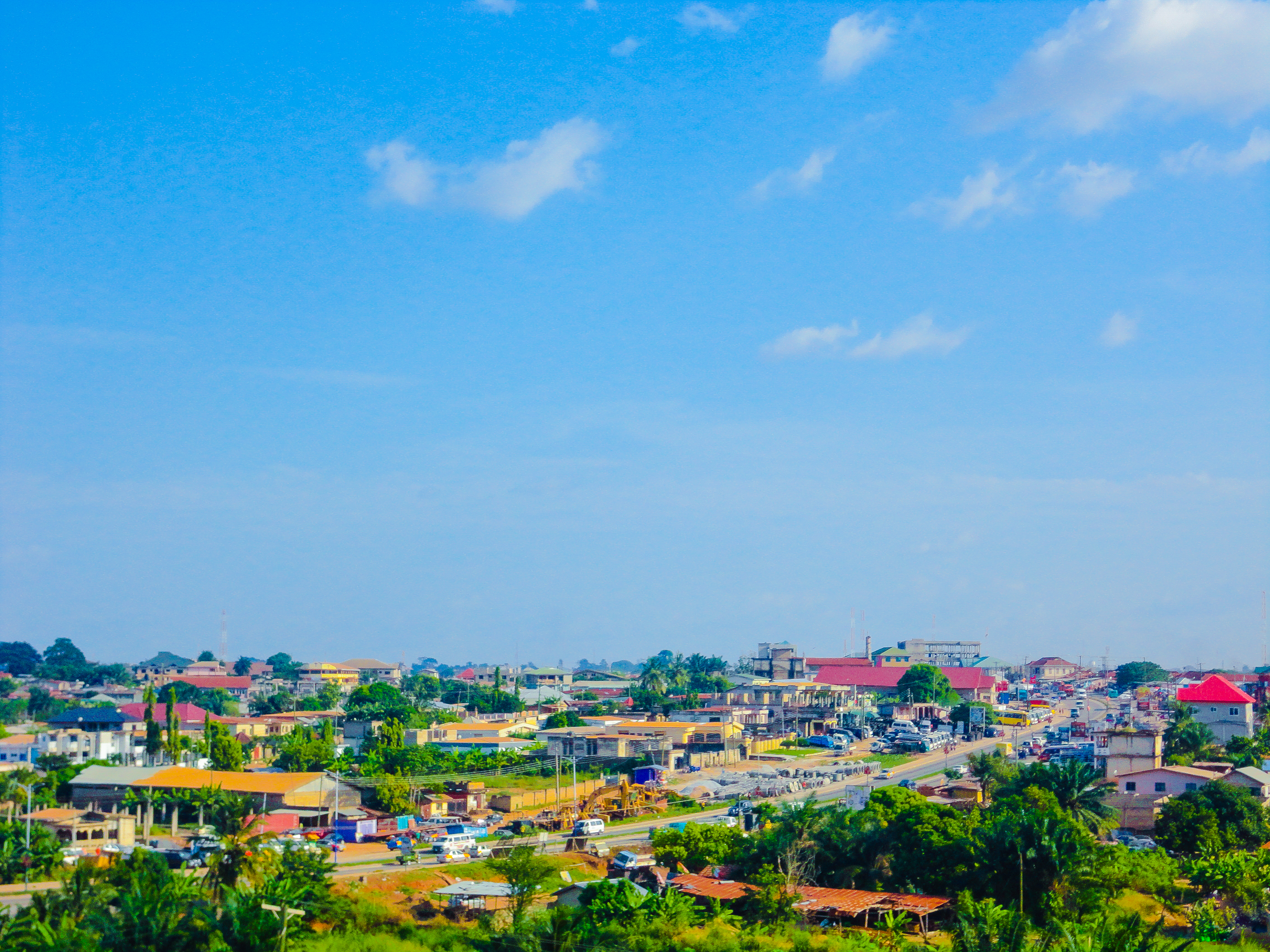 Beautiful sky of Kronum in Kumasi, Ghana.